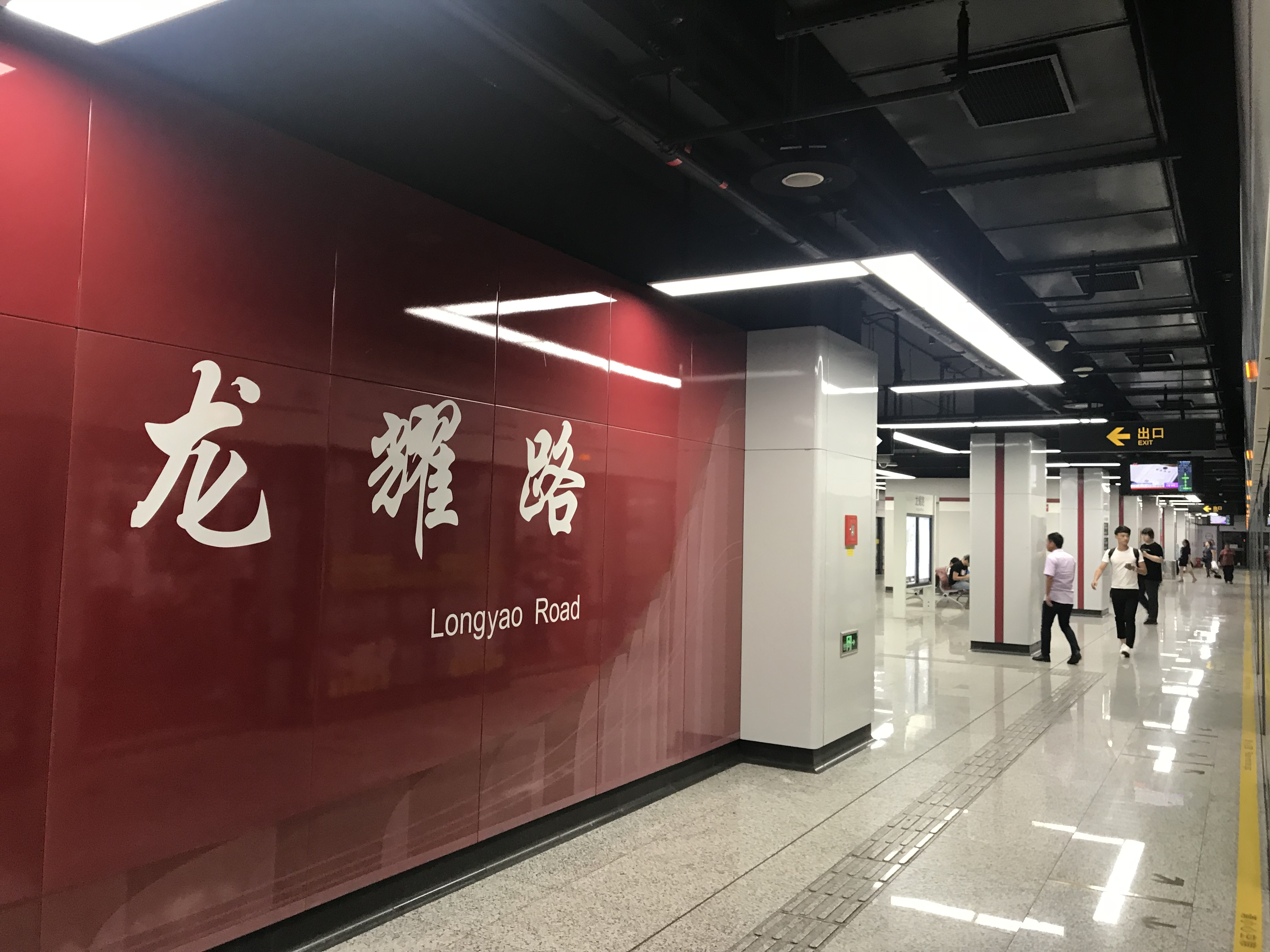 201806 Nameboard of Longyao Road Station